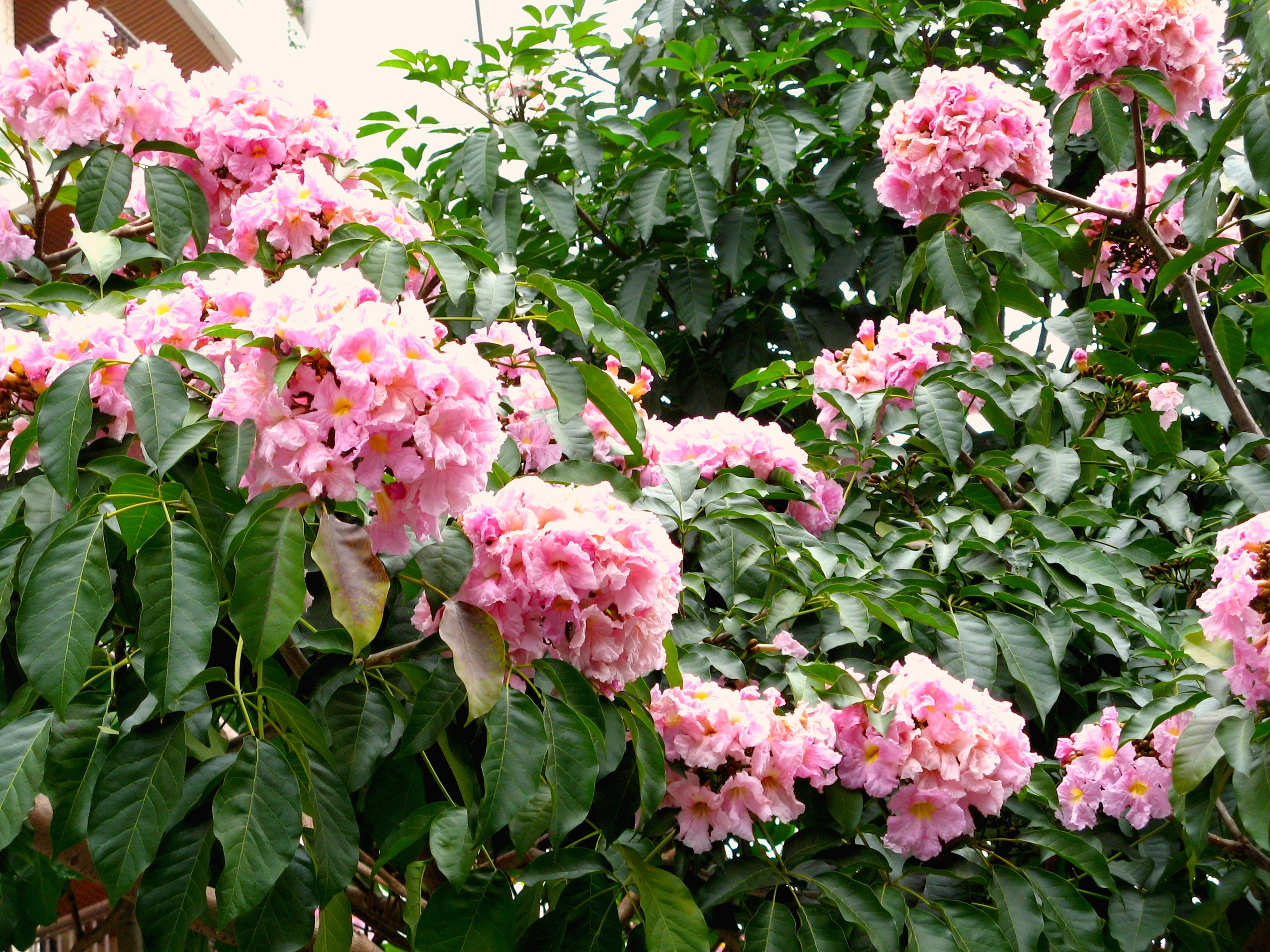 Handroanthus heptaphyllus (syn. Tabebuia heptaphylla) in flower, Tatuapé street, Sao Paulo (Brazil)